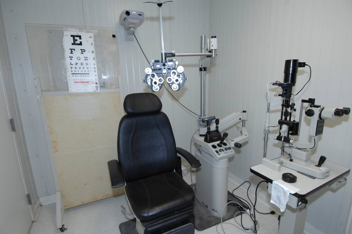 Guantanamo captive's optometry clinic.